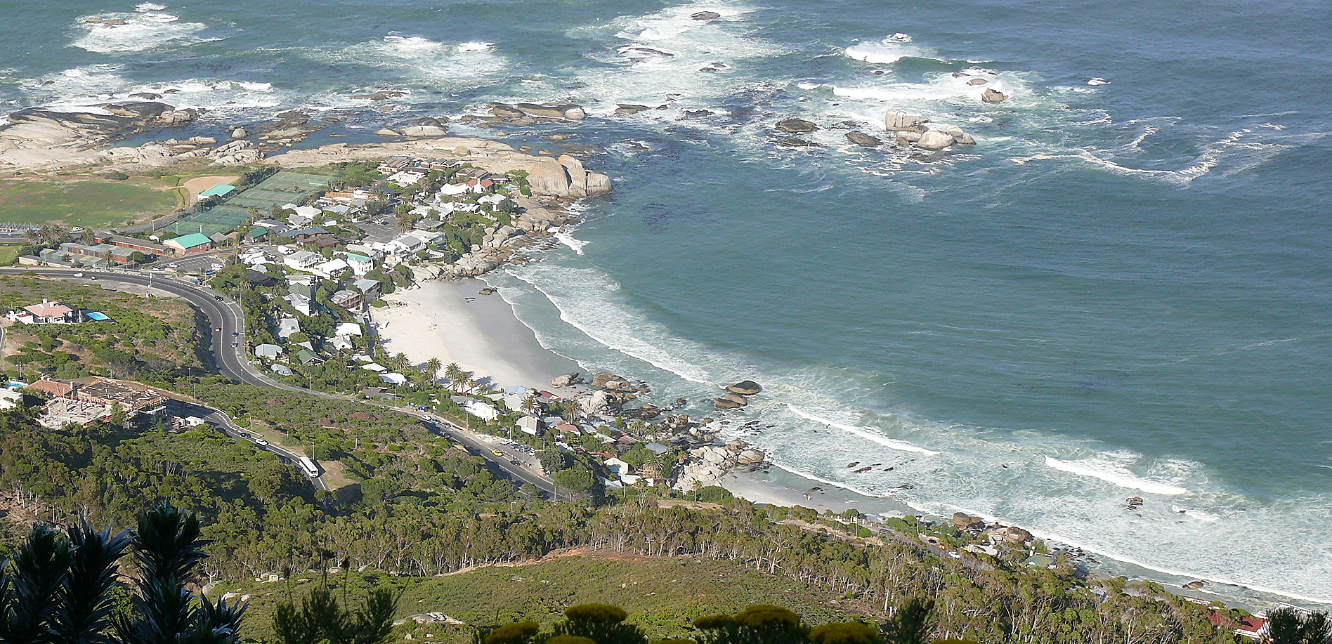 Clifton is a suburb of Cape Town, South Africa. It features a total of 4 beaches. Photo by Hilton Teper